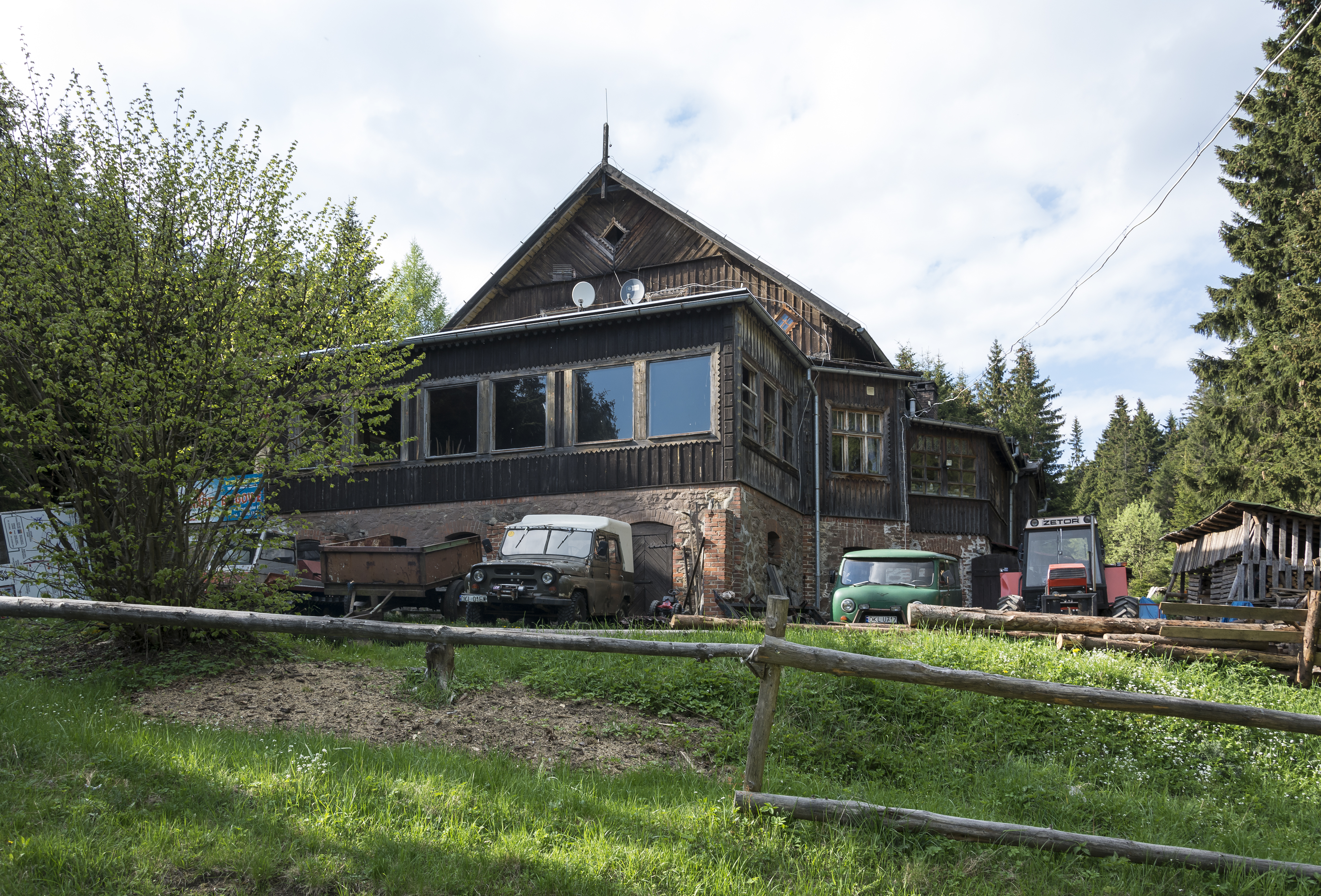 Sowa hostel, Sowie Moutains, Sudetes